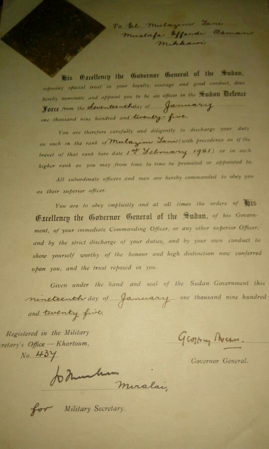 شهادة تعيين مصطفى أفندي بقوات دفاع السودان انجليزي2